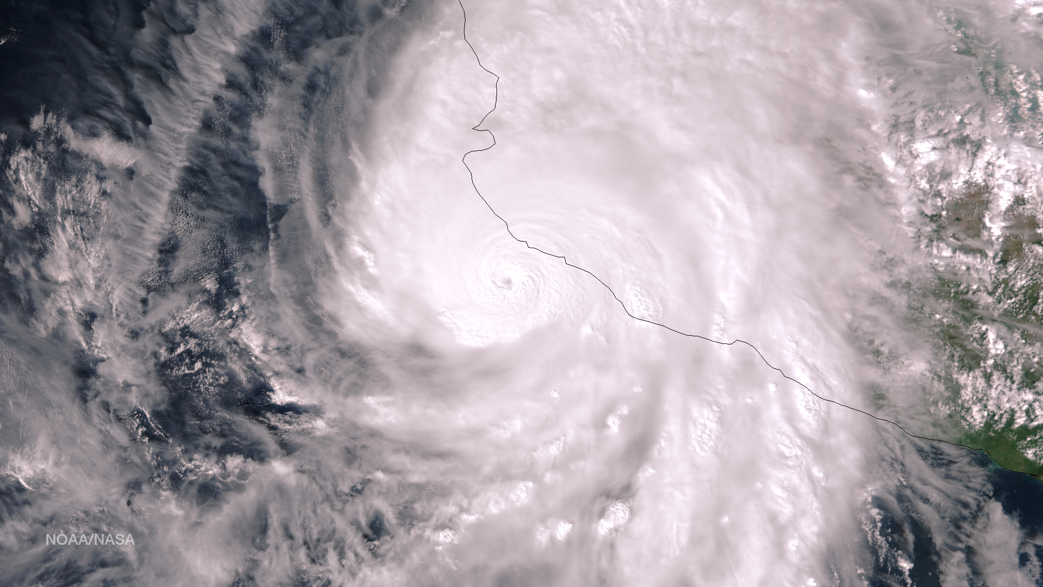 This image from the Suomi NPP satellite's VIIRS instrument was taken around 2035Z on October 23, 2015.